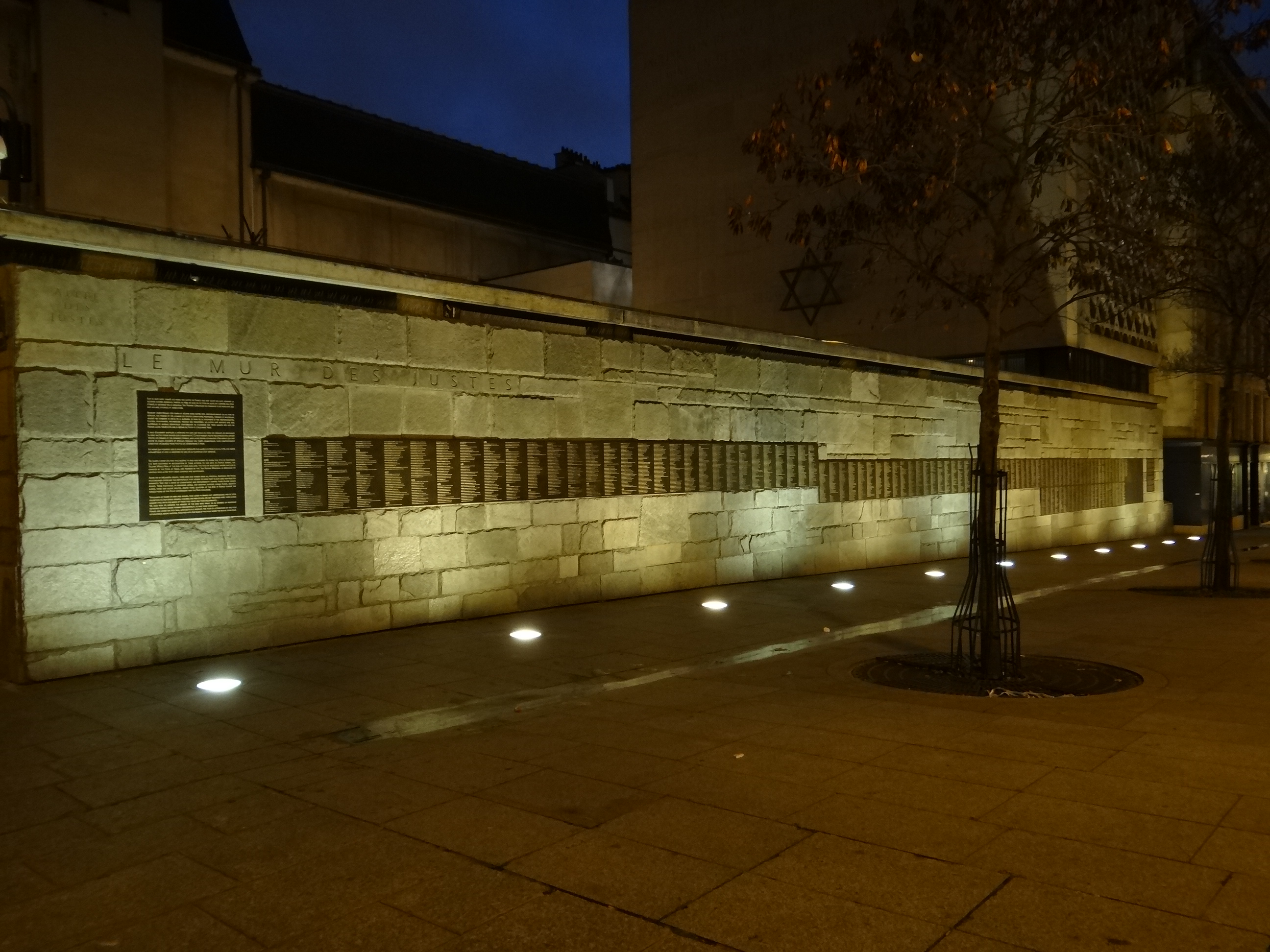 Wall of the Righteous, in Allée des Justes in the fourth arrondissement of Paris.